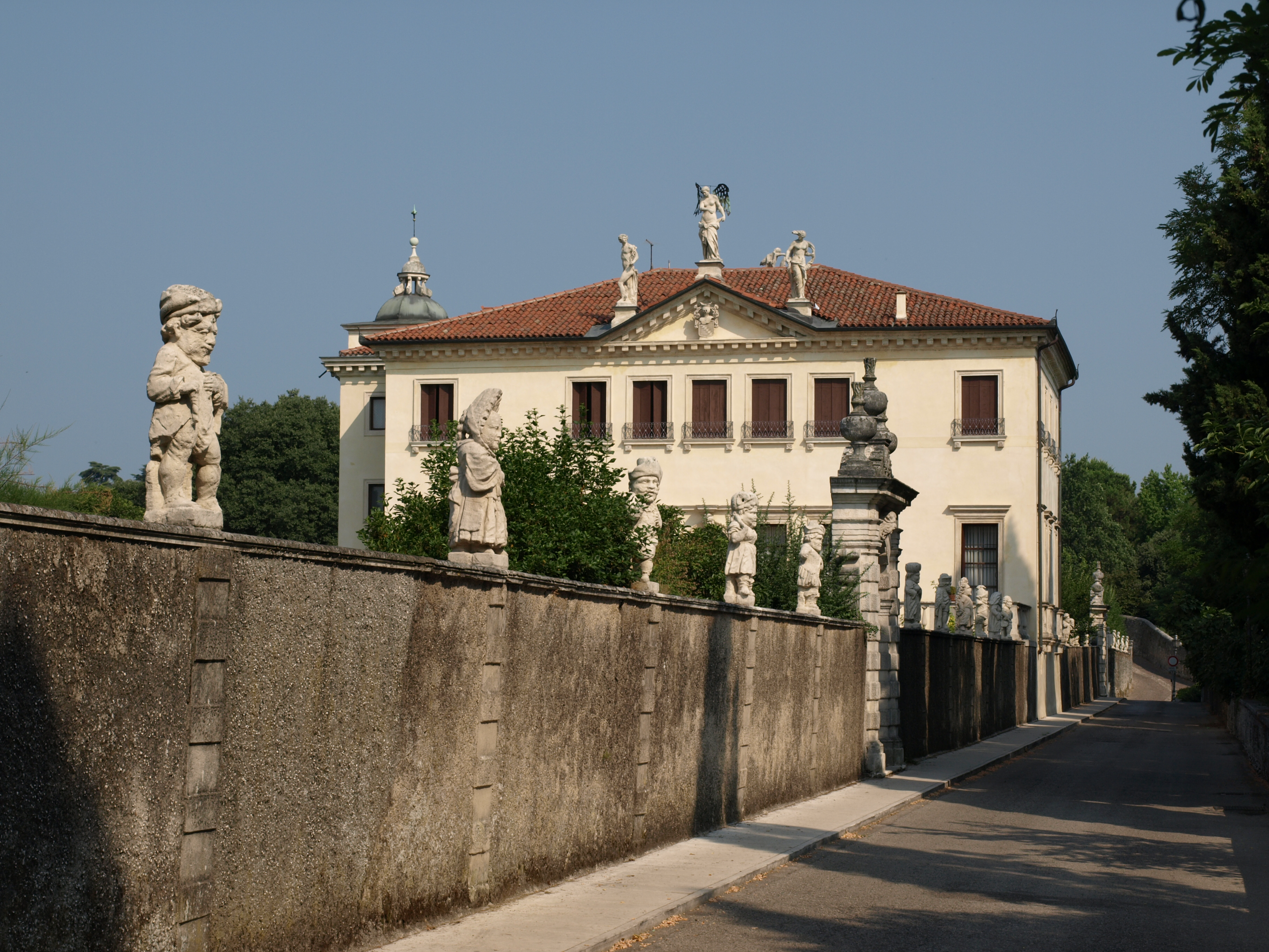 Villa Valmarana ai Nani at Vicenza.